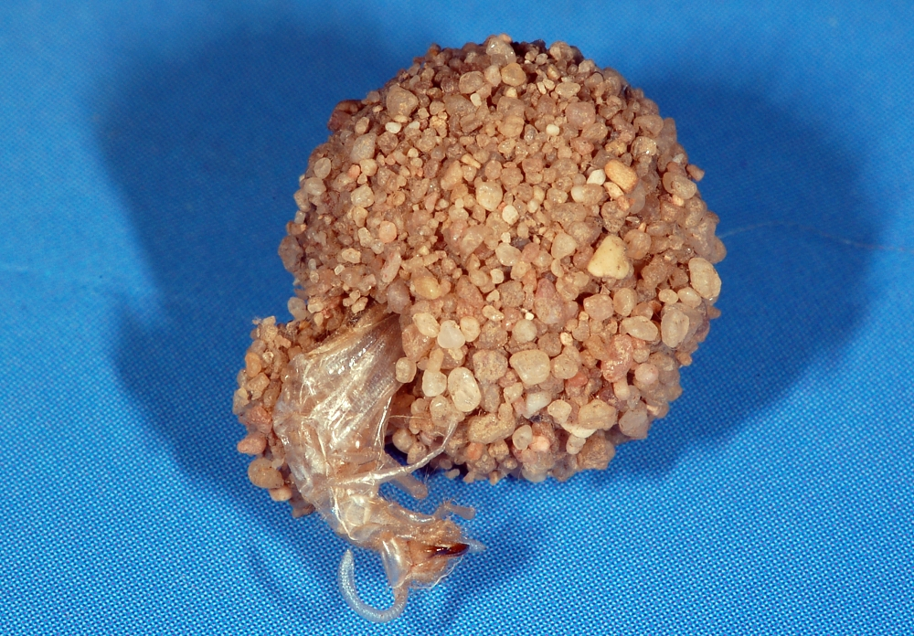 Euroleon nostras, Kelsterbach close to Frankfurt/Main, Germany